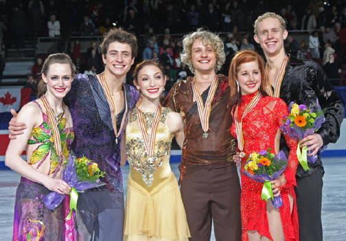 The ice dance podium at the 2009 Four Continents Championships. From left: Tessa Virtue / Scott Moir (2nd), Meryl Davis / Charlie White (1st), Emily Samuelson / Evan Bates (3rd)